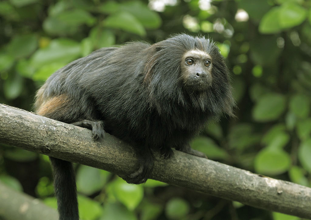 Black lion tamarin (Leontopithecus chrysopygus) in Bristol Zoo. The species was exposed in Zona Brazil.